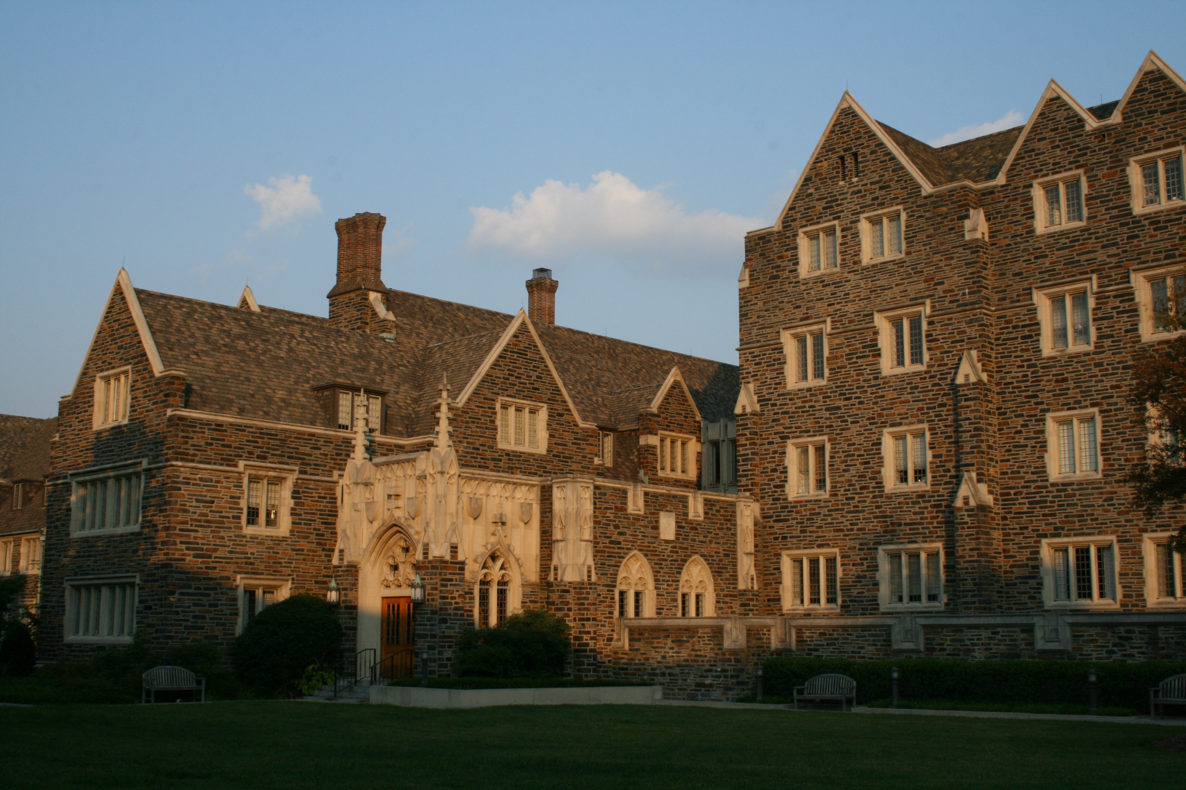 Hospital South building viewed from its courtyard at Duke University in Durham, North Carolina.